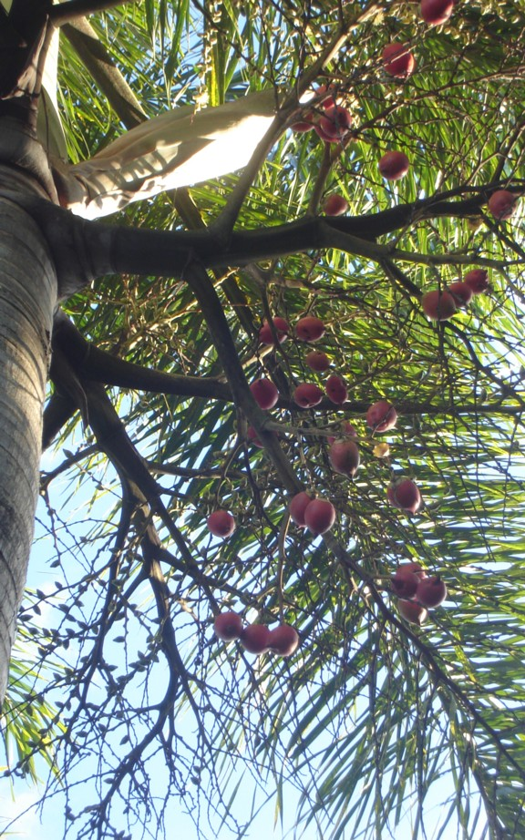 Foxtail Palm seeds, from Foxtails in Whitfield, Cairns